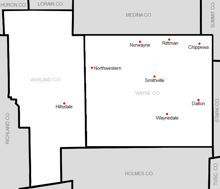 Image taken from the US Census. Modified by myself to highlight school locations. To be used for the Wayne County Athletic League page.